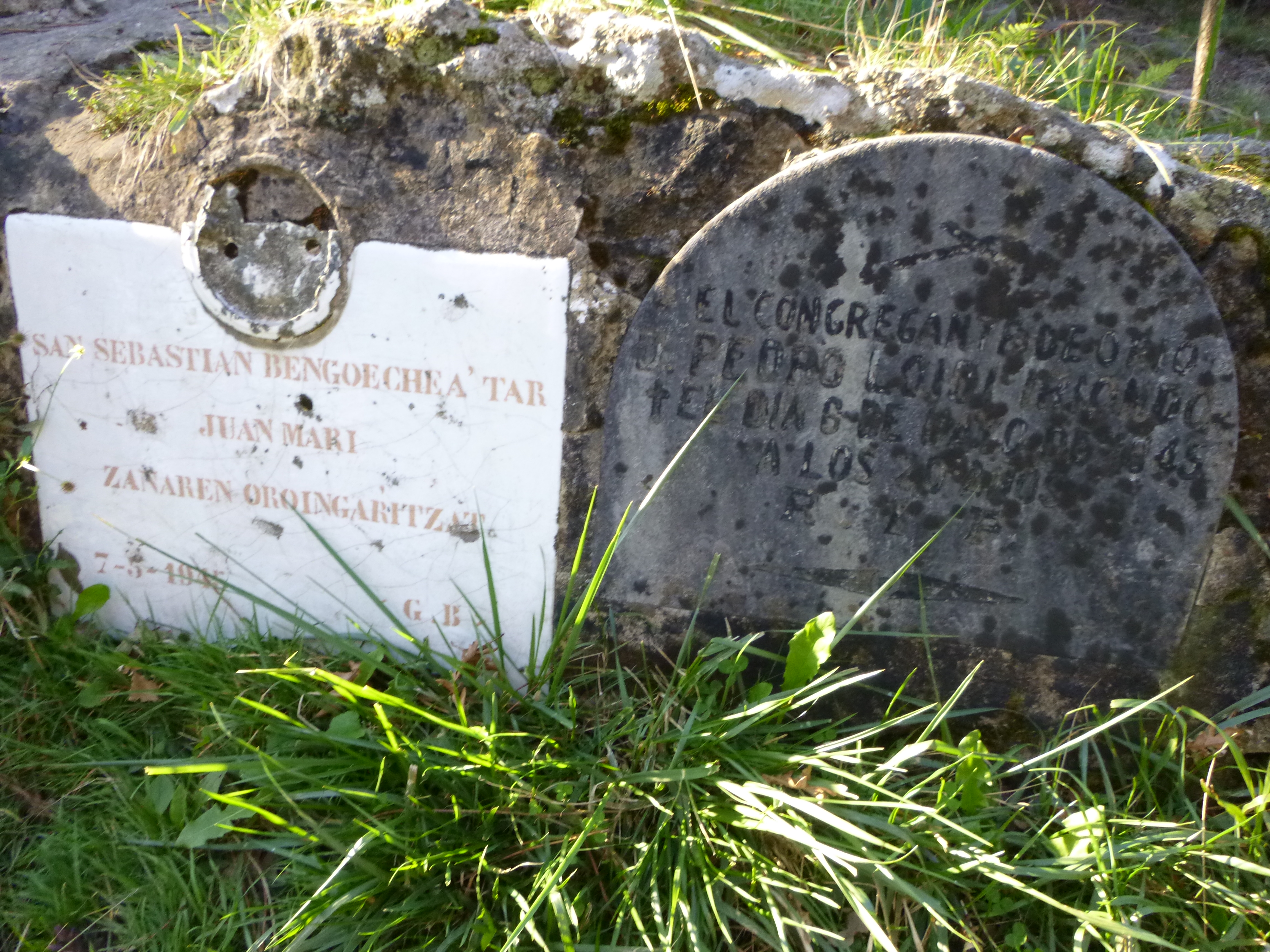 Juanasoro cross